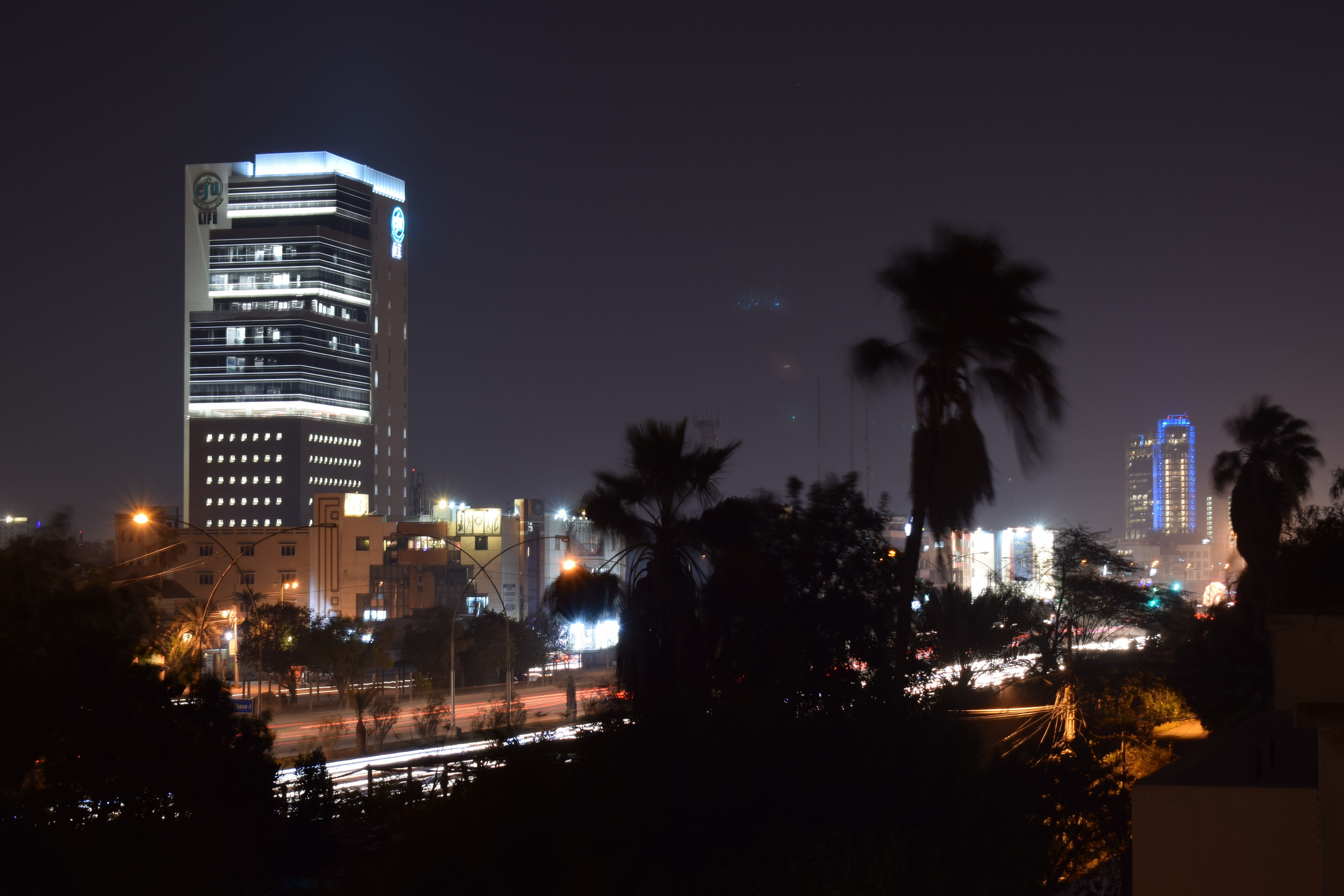 Night View of EFU Life's Head-office at D.H.A Phase-1 Karachi